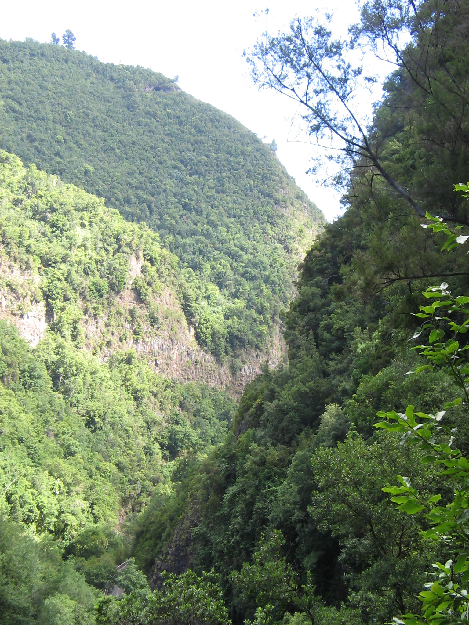 Laurisilva of La Palma with Ocotea foetens on the foreground